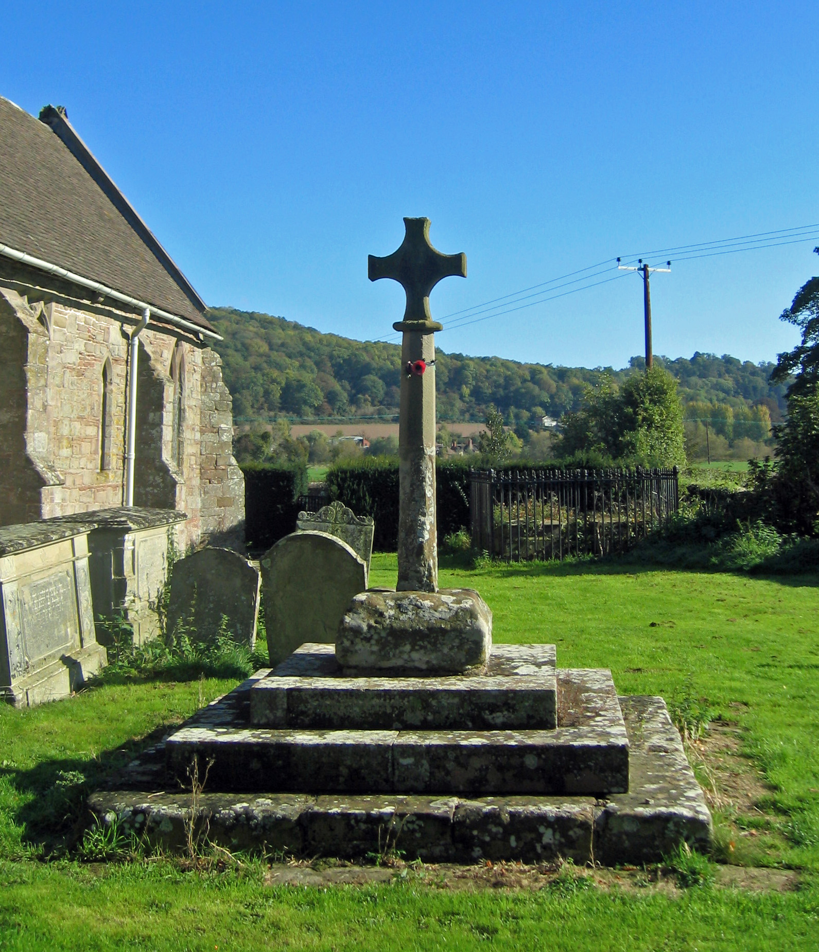 Stone cross in St Cuthbert's parish churchyard, Holme Lacy, Shropshire